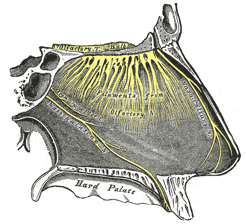 Nerves of septum of nose. Right side.